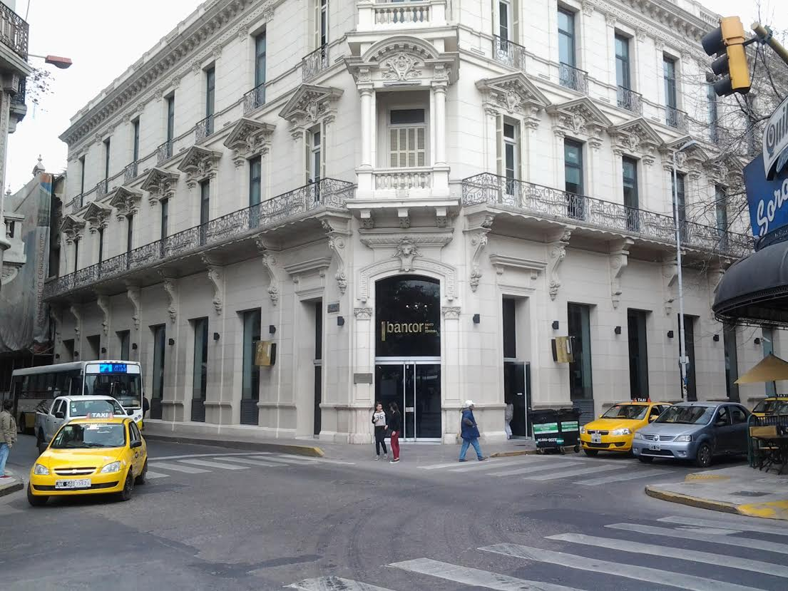 imagen del Banco de Cordoba 1 de septiembre de 2015